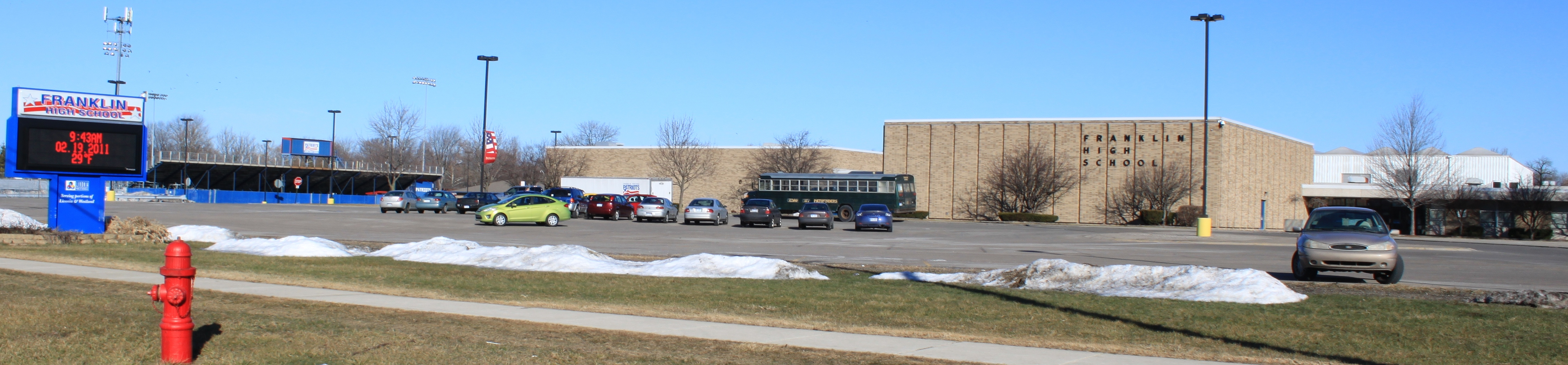 Franklin High School, 31000 Joy Road, Livonia, Michigan